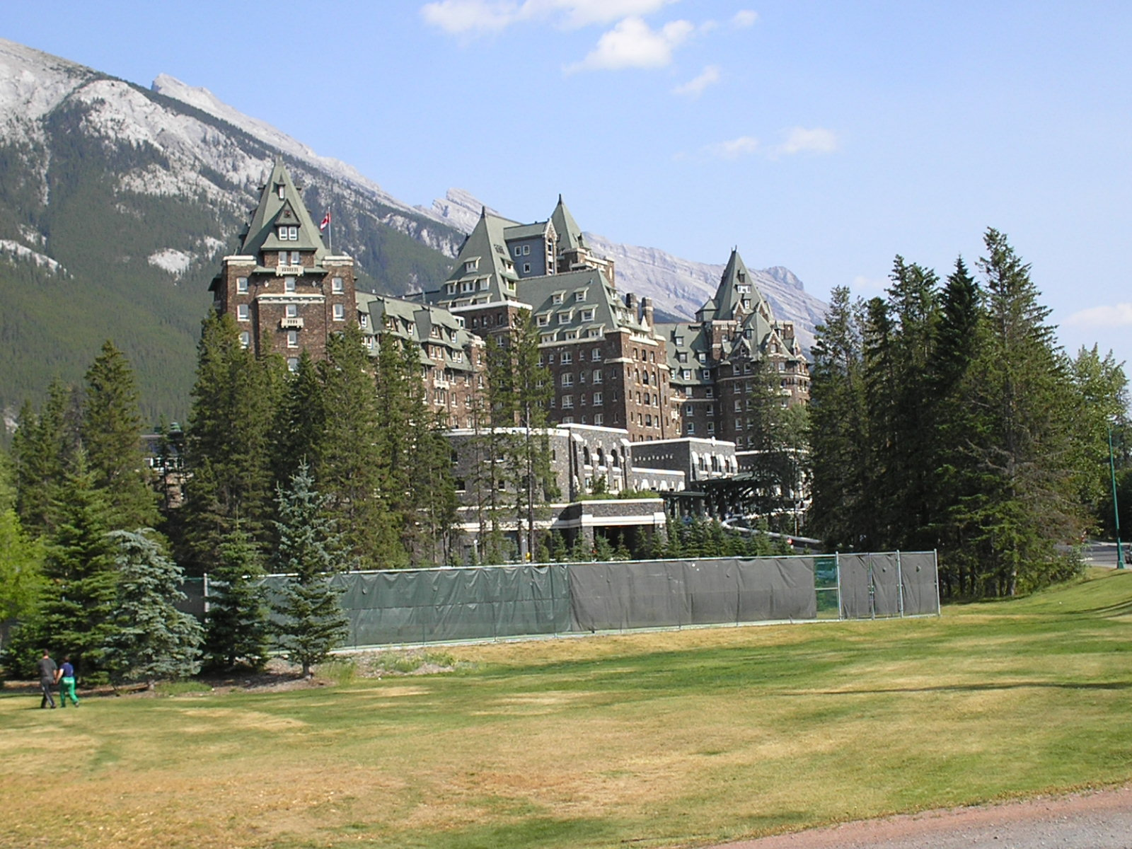 Fairmont Banff Springs Hotel, Banff, Alberta, Canada. Hôtel très fameux, construit aux ordres de William Van Horne, PDG de Canadian Pacific Railway, en 1886-1888. Très populaire pour les noces et pour les touristes bien riches. Photo prise le 13 août 2005. Very famous hotel, built by order of William Van Horne, general manager of Canadian Pacific Railway, from 1886 to 1888, Very popular hotel for weddings and honeymoons and for very well heeled tourists. Photo taken 13 August 2005.